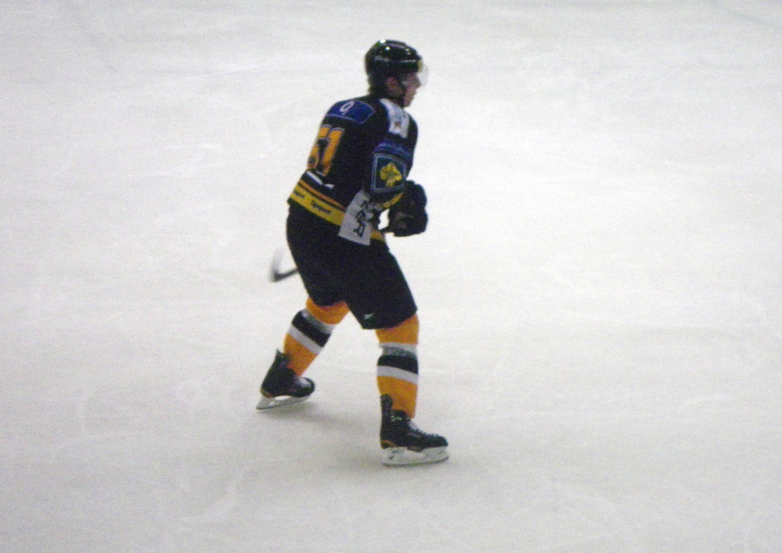 David Pojkar, czech ice hockey player with HC Litvinov.